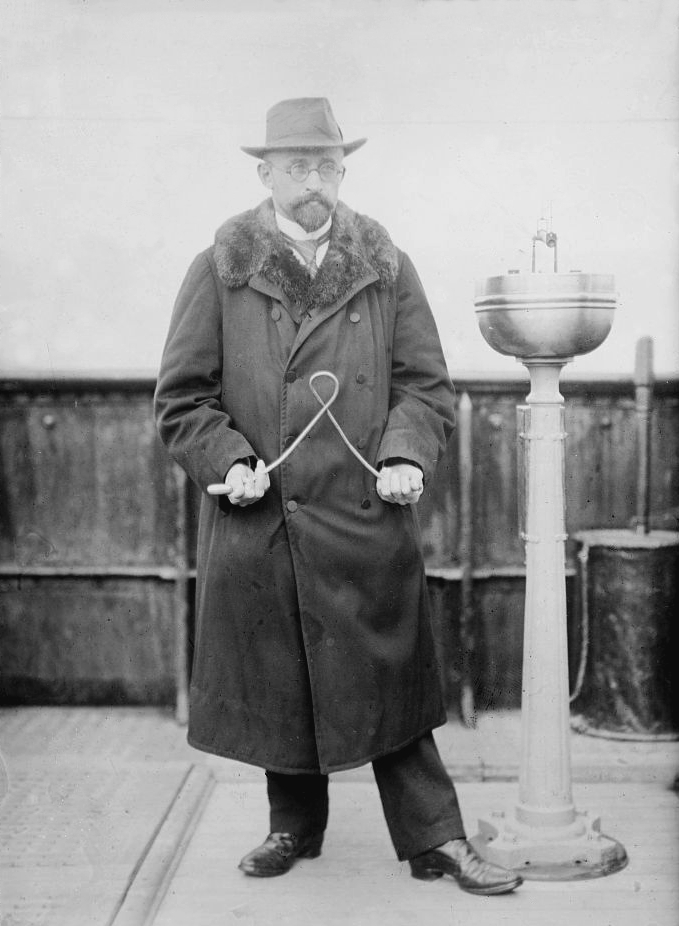 Otto Edler von Graeve (July 22, 1872 - January 10, 1948) in 1913. 1 negative : glass ; 5 x 7 in. or smaller. Notes:Title from unverified data provided by the Bain News Service on the negatives or caption cards.Forms part of: George Grantham Bain Collection (Library of Congress). Format: Glass negatives. Repository: Library of Congress, Prints and Photographs Division, Washington, D.C. 20540 USA, Call Number: LC-B2- 2963-8